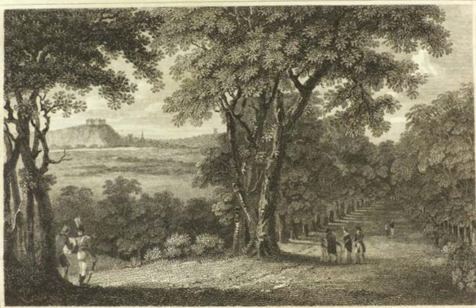 Clifton Grove